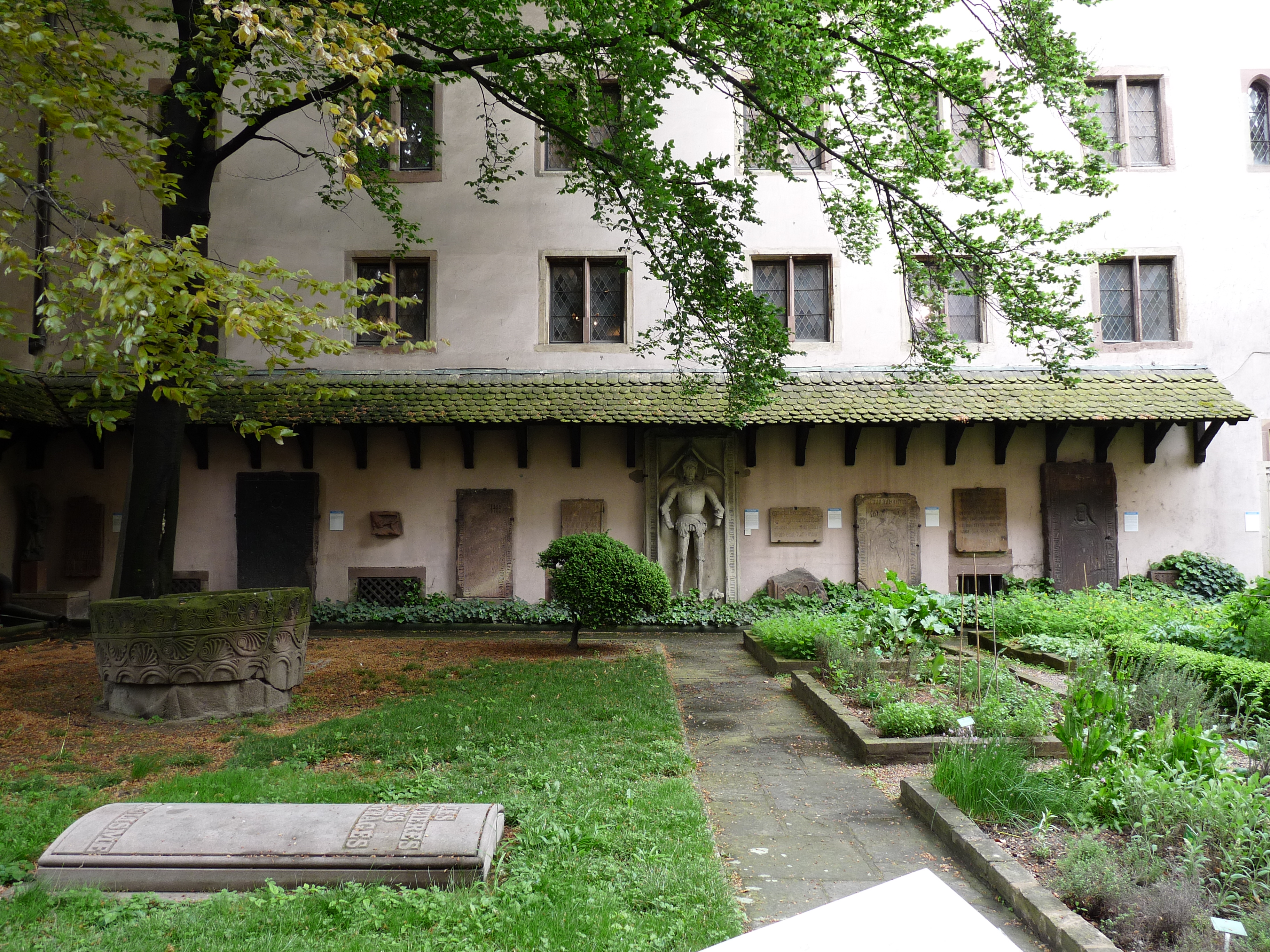 Botanical garden of Musée de l'Oeuvre Notre-Dame (Strasbourg)